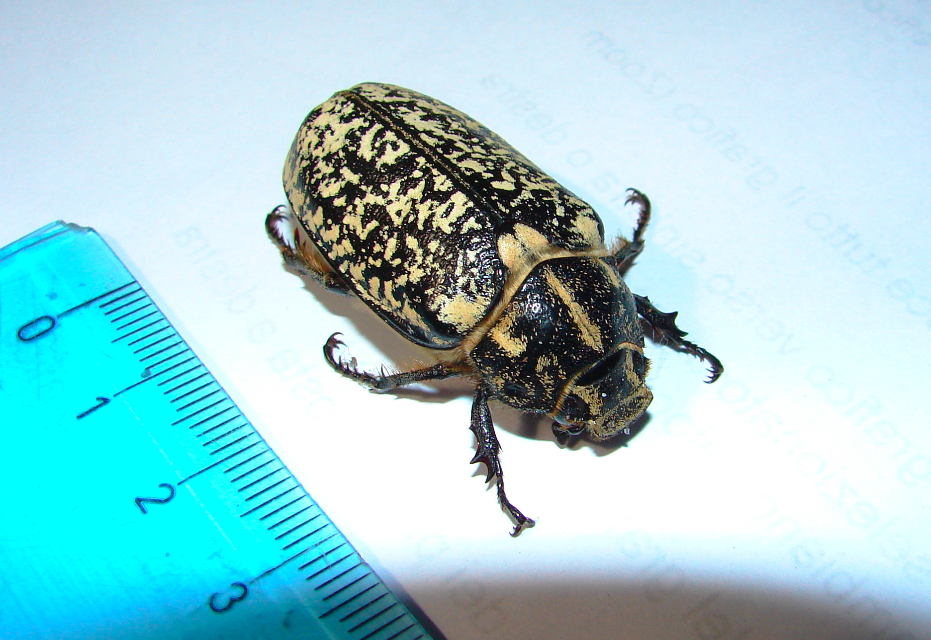 A female individual of Polyphylla fullo (no english article yet), about 3.5 cm long. Found in Bolzano, Italy, August 31, 2009.